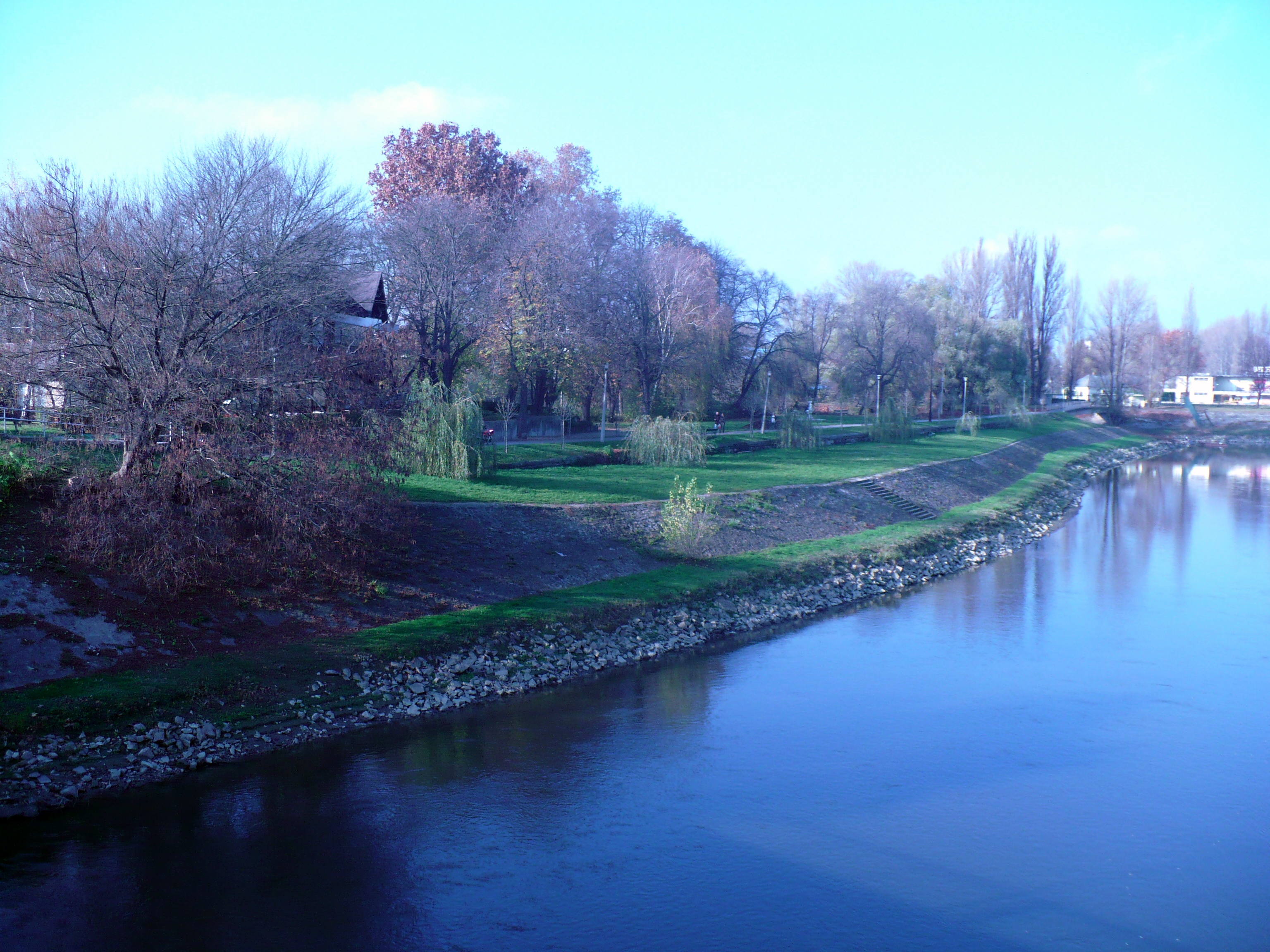 Radó island in Győr. The photo was taken from the Kettős híd of Rába